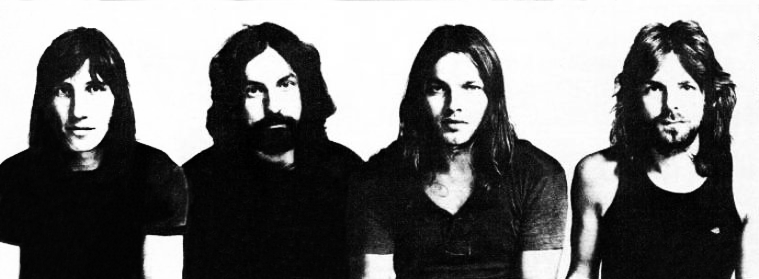 Trade ad for Pink Floyd's album Meddle.To better adapt it to his respective Wikipedia article, the ad was cropped and cleaned in a graphics editing program. The original can be viewed at the source below.